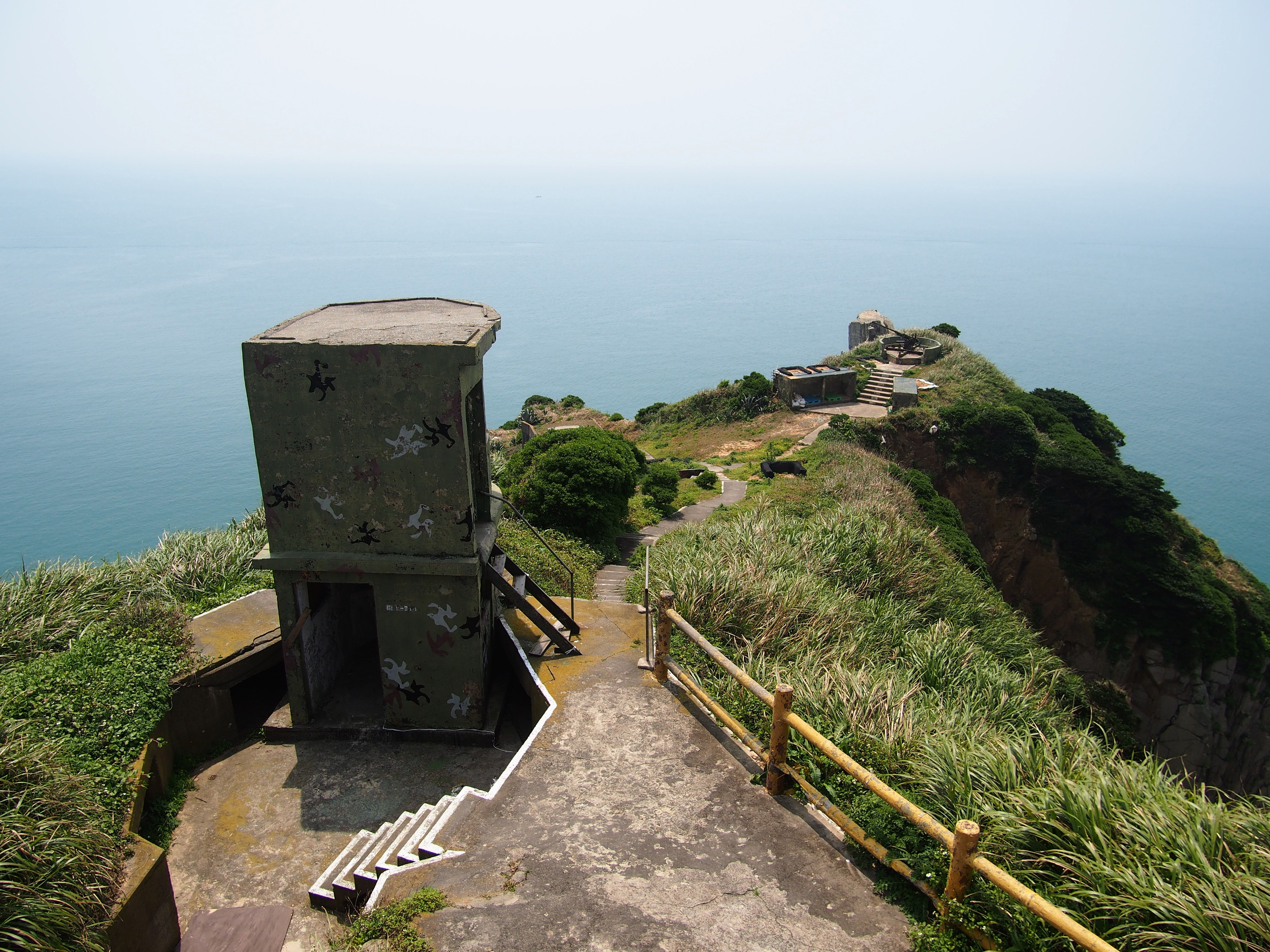 Stronghold 26 - 2016.04